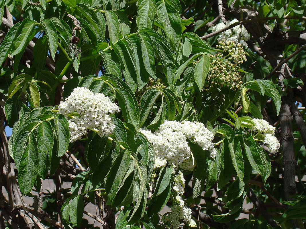 Flowers of the South American Elderberry called Sauco, in southern Peru.